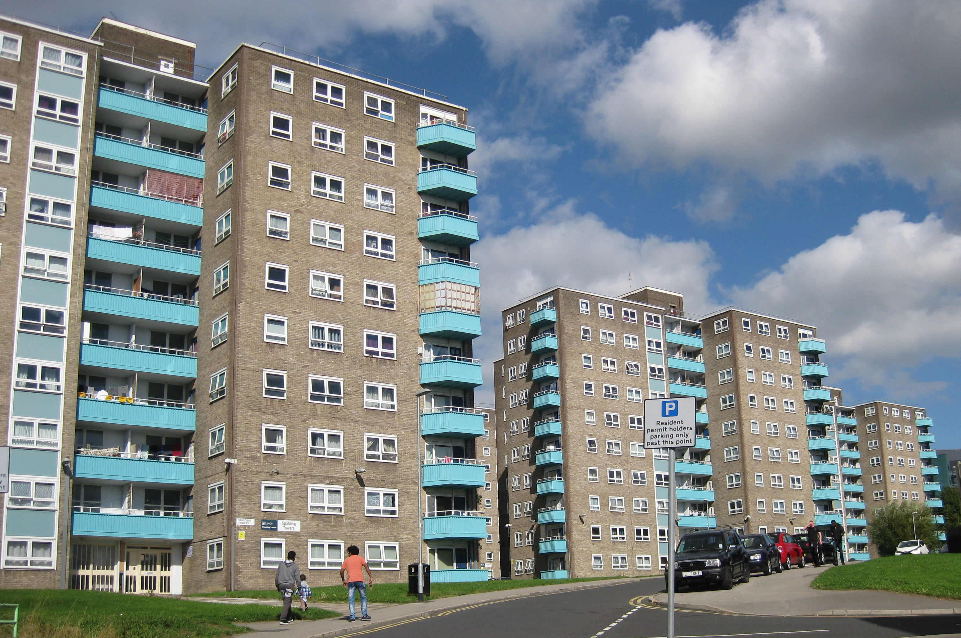 Spalding Towers, Lindsey Road, Leeds LS9, with other blocks in the Lincoln Green estate behind. 10-storey T-plan, built 1958